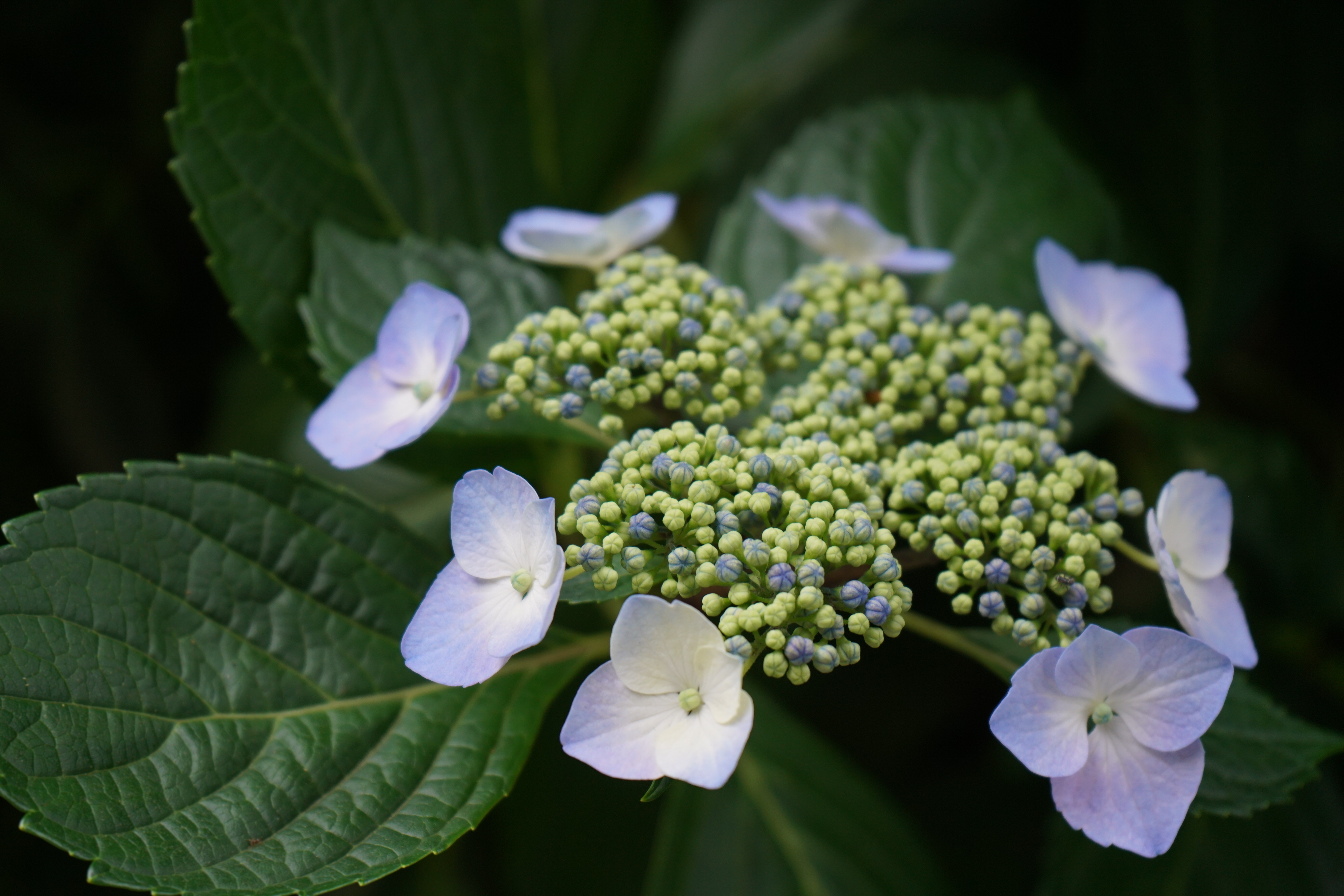 Hydrangea anomala flowers, Tokyo, May 2016.